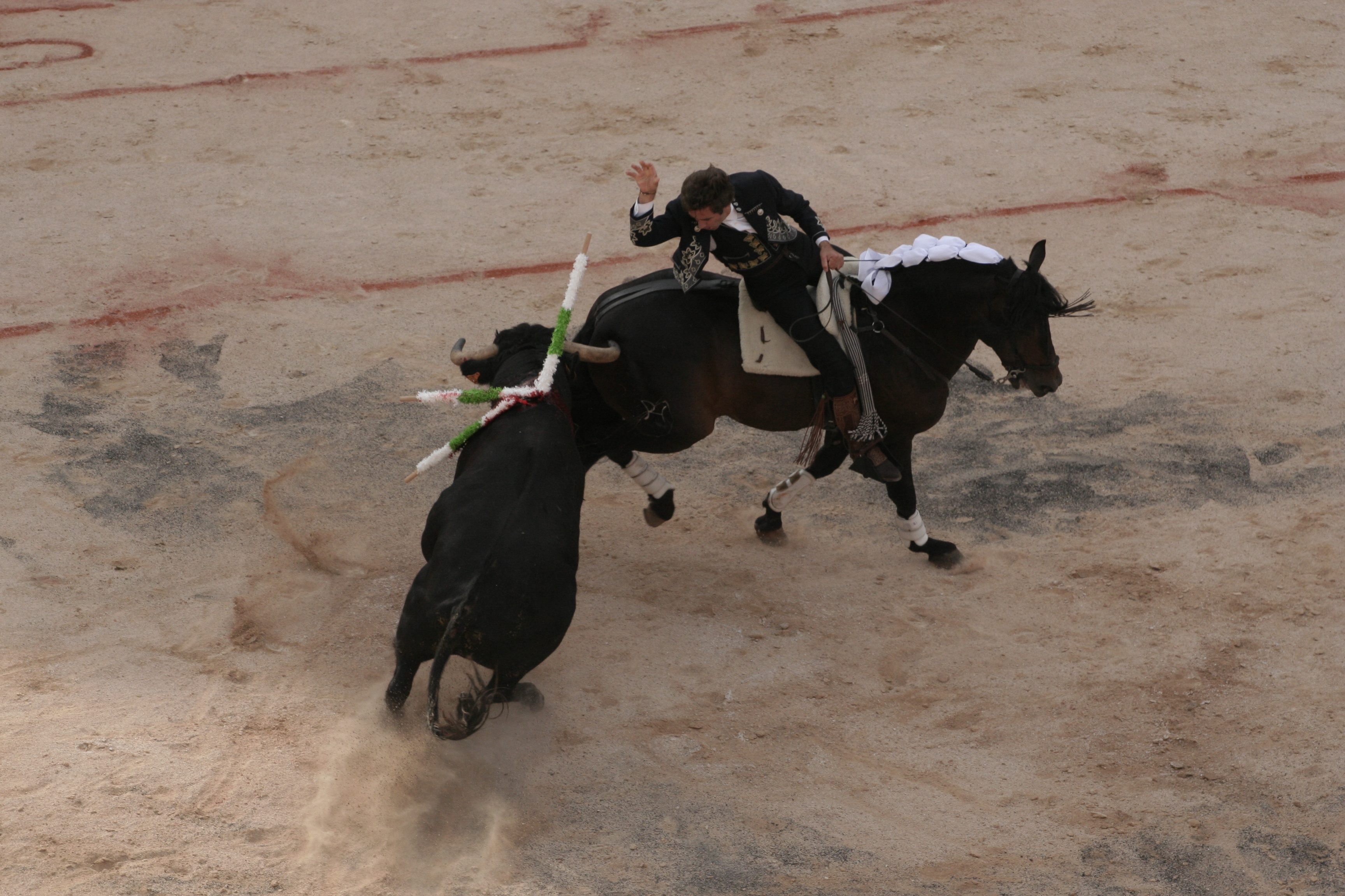 Pablo Hermoso de Mendoza in Arles